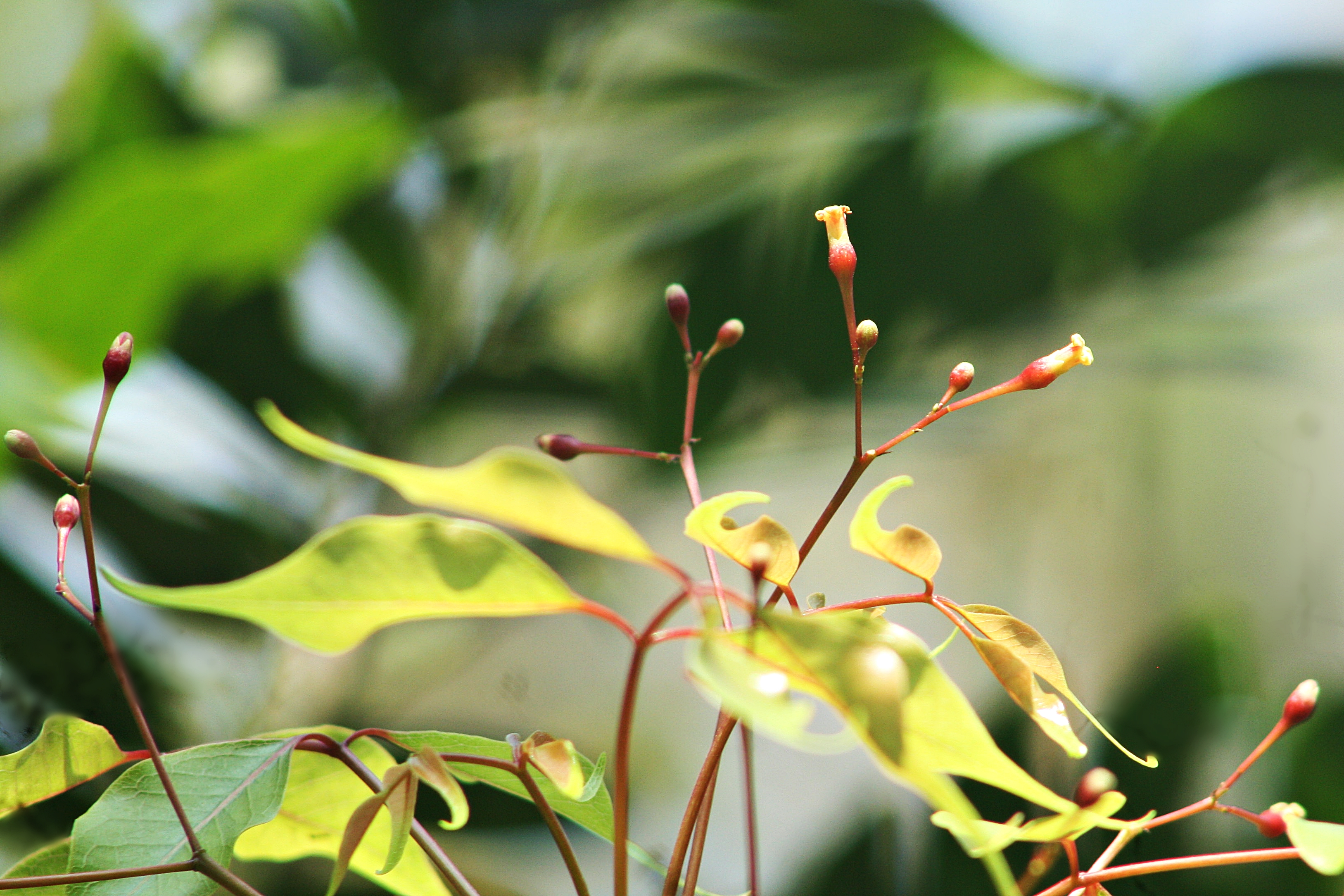 കടമ്പേരി, കണ്ണൂർ